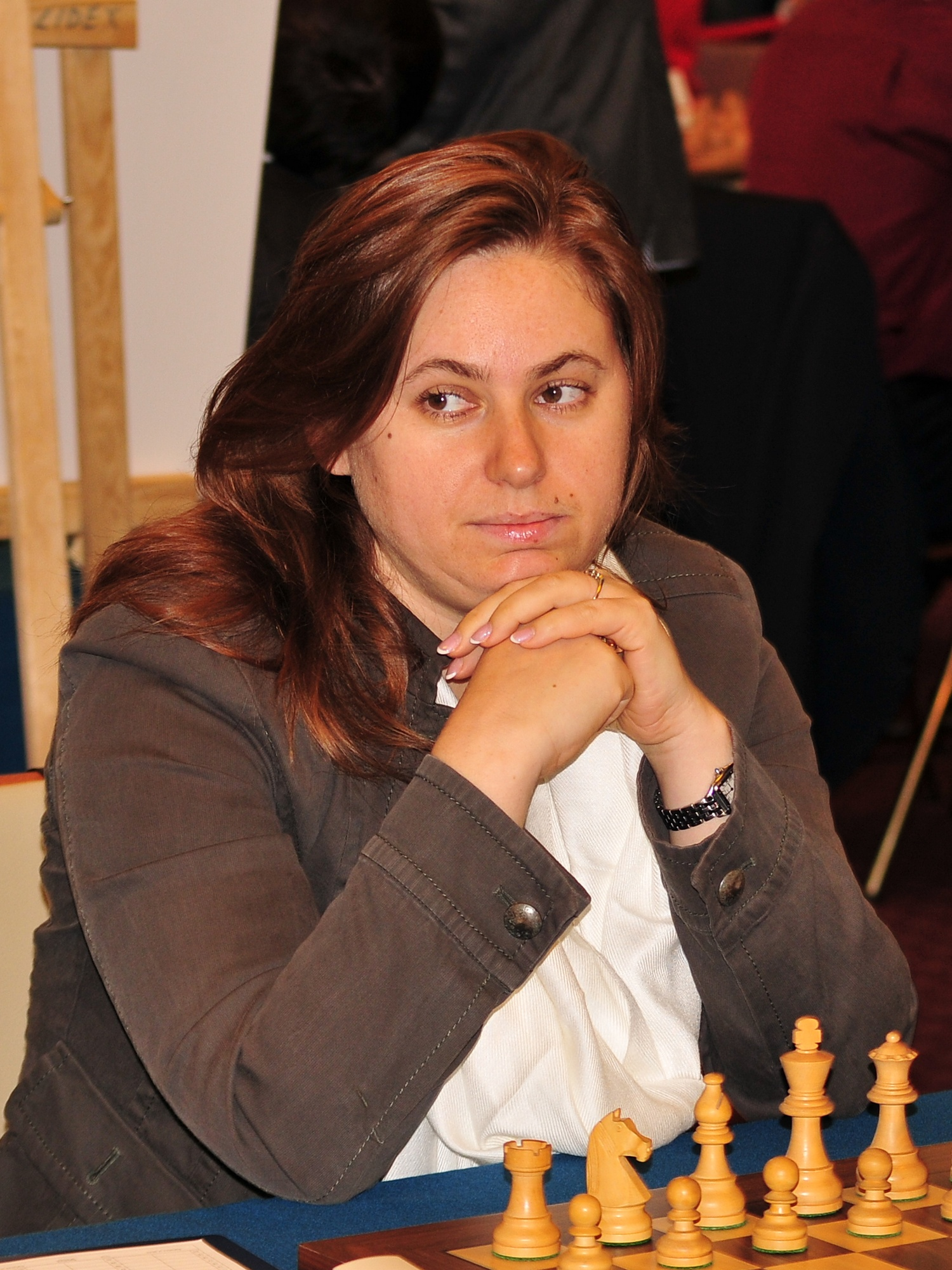 GM Judit Polgár, European Chess Team Championship Warsaw 2013